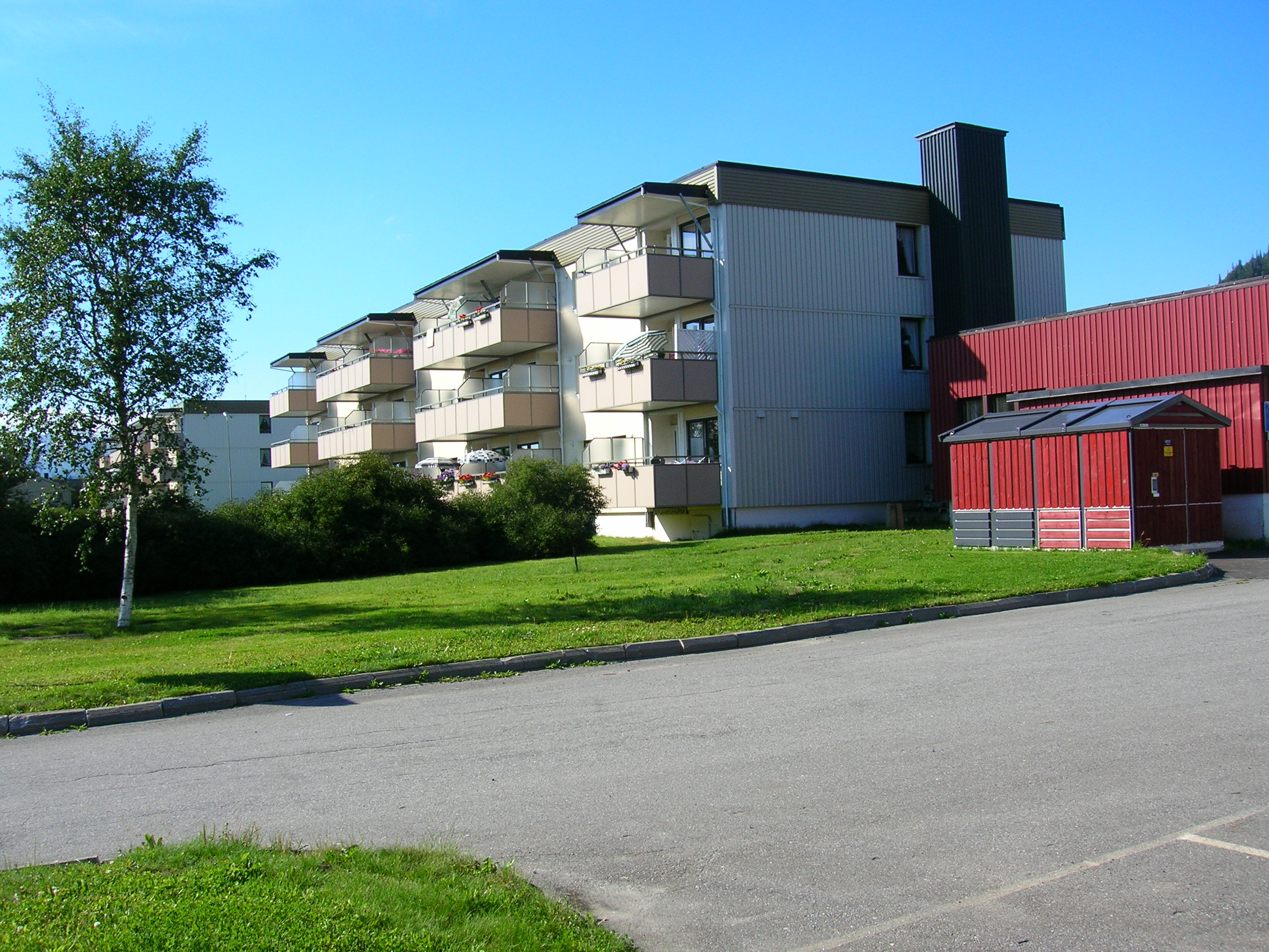 Ormenget housing cooperative on Selfors, north of Mo i Rana, Rana municipality, county of Nordland, Norway, Photo 8 August, 2007 with a Nikon Coolpix 5600 5,1 Megapixel camera.